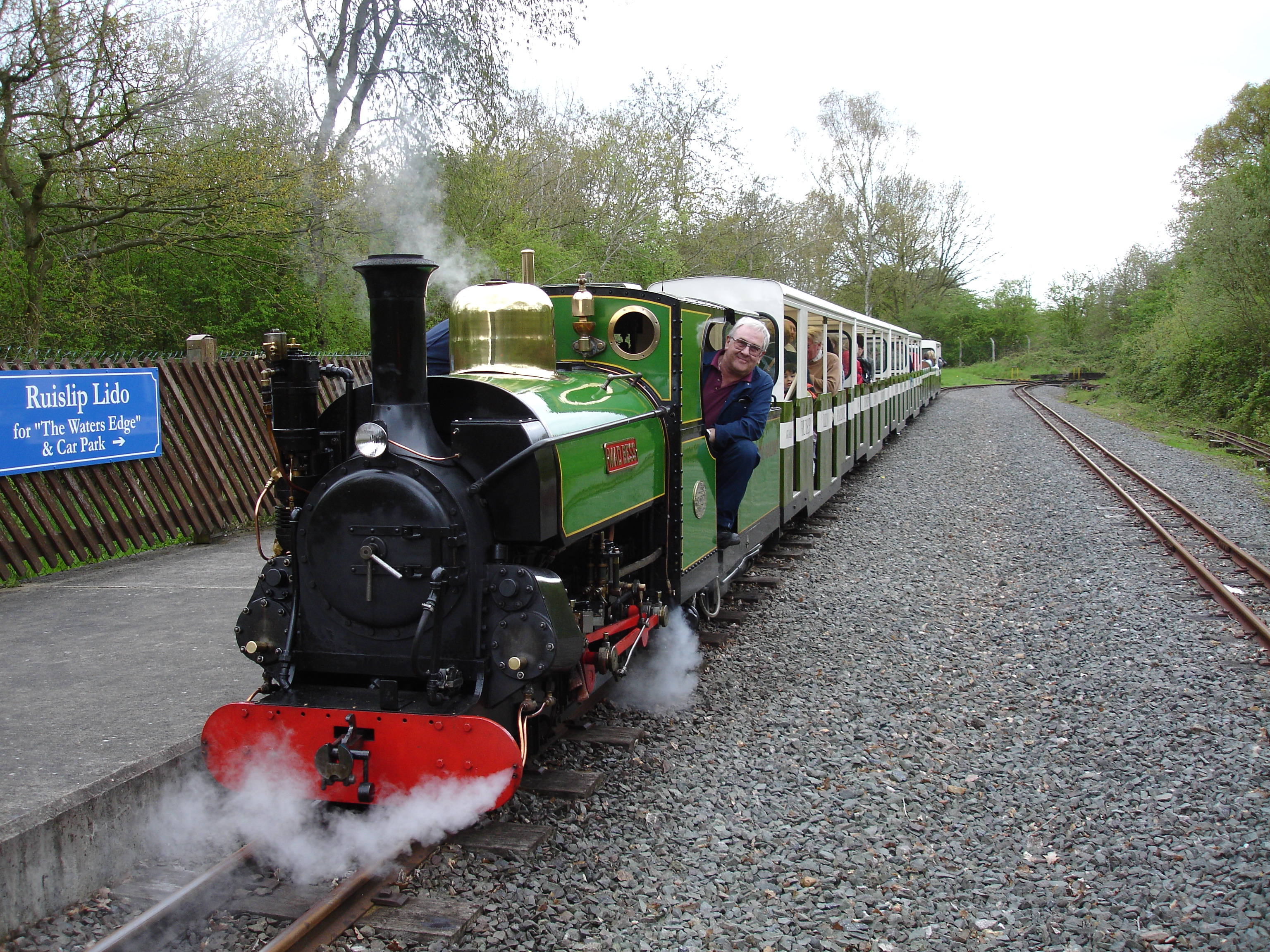 'Mad Bess' stands at Ruislip Lido Station on the Ruislip Lido Railway